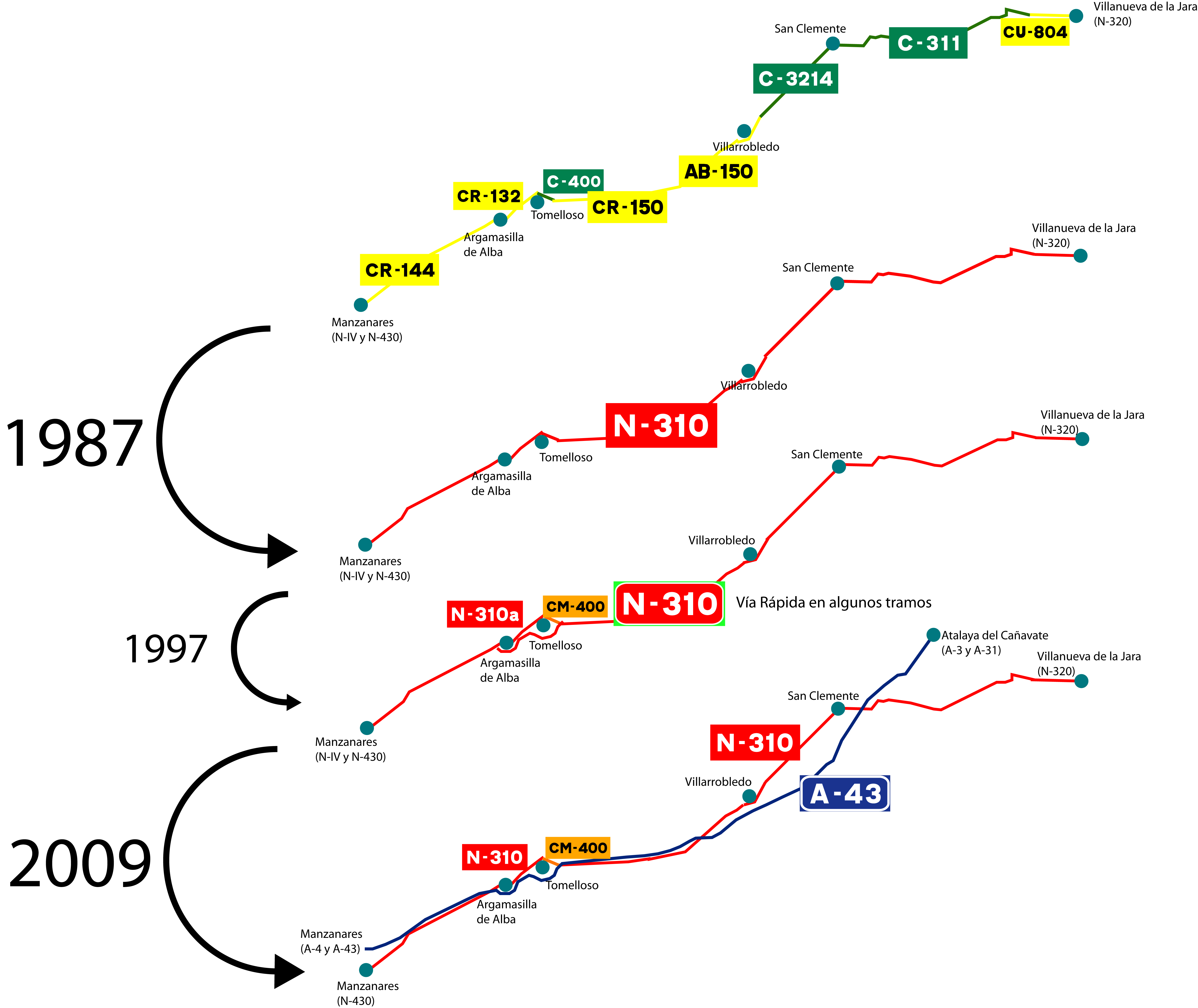 History of the formation of N-310 highway and eastern section A-43 motorway in Spain.